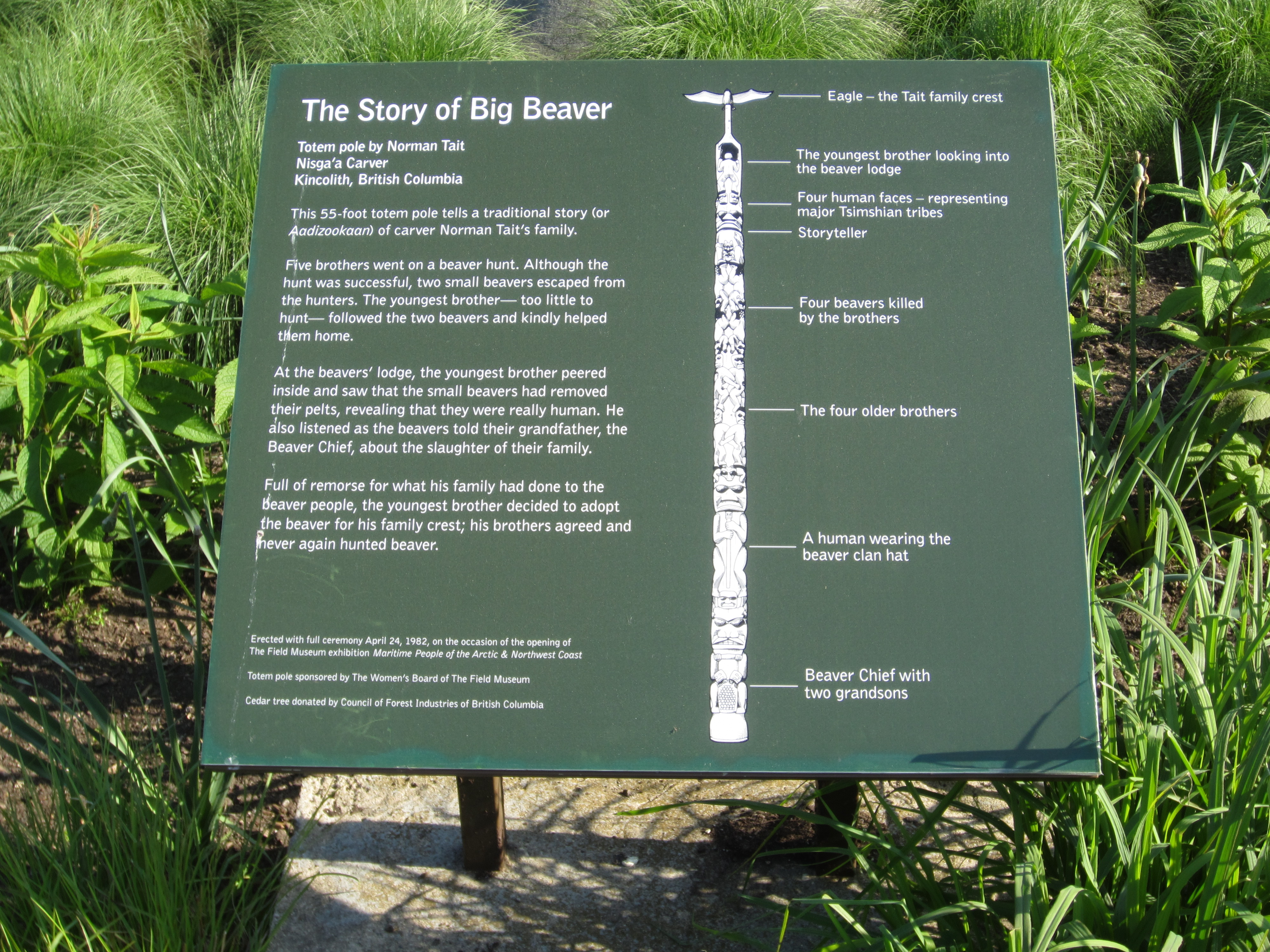 Chicago, Illinois, June 2015